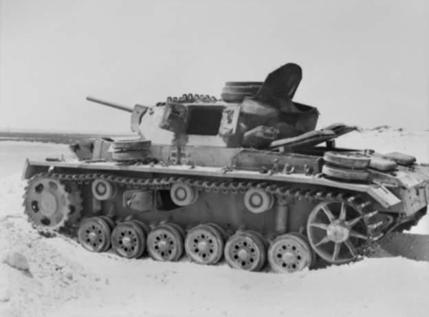 A German Panzer III Ausf.L that was knocked out by Australian anti-tank gunners at El Alamein in August 1942. A small hole slightly above and between the 2nd and 3rd wheels from the right was where the effective shell entered.